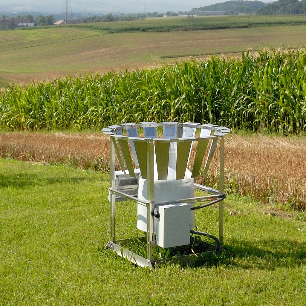 Rain Gauge (weighing principle) with wind protection